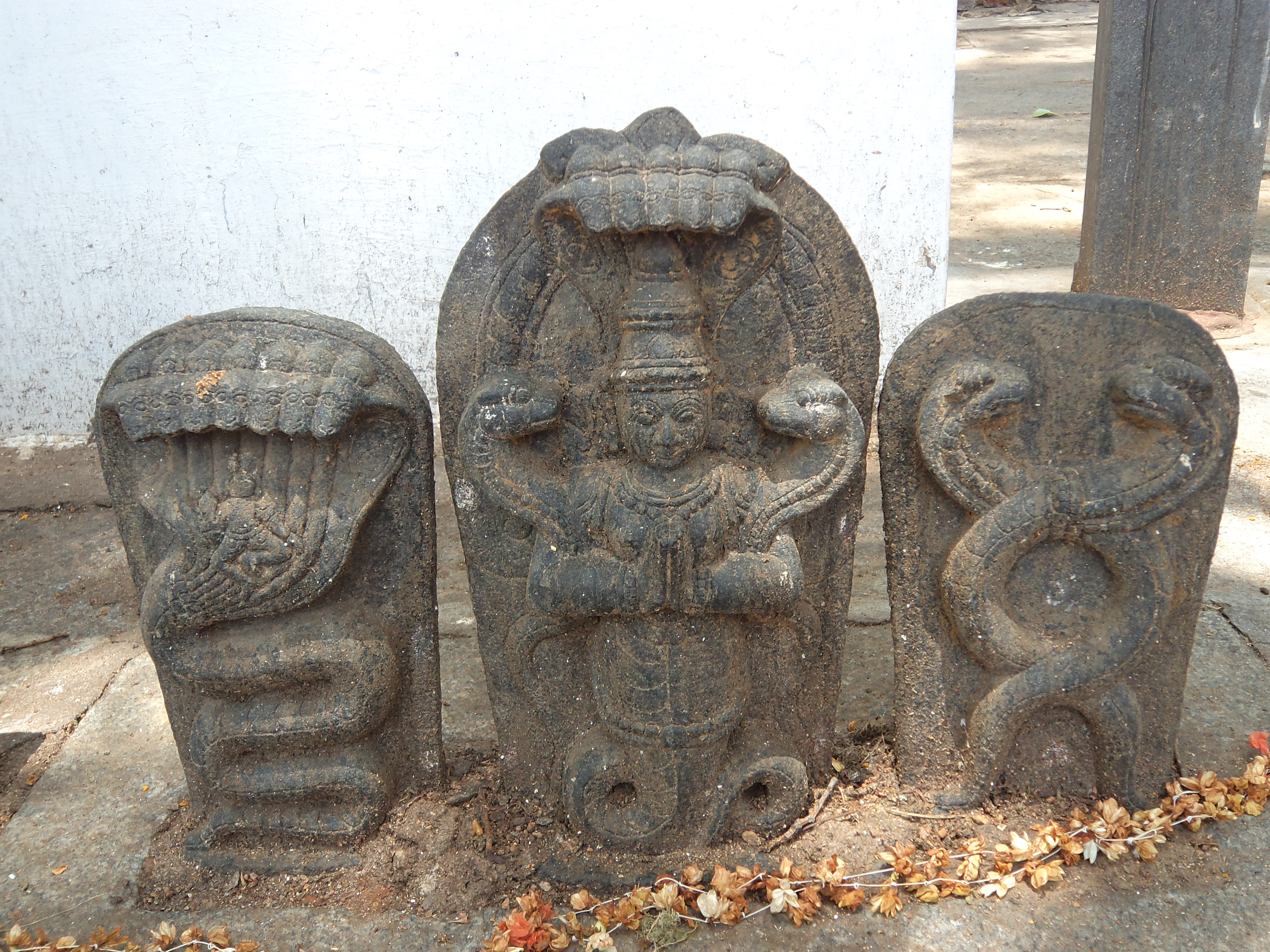 Nagashila, a stone cut carving representing the snake Gods are typically found under a Peepal tree outside most (South) Indian temples. Typically its a set of three idols containing first one as Adi seshu, second one Naga raja with snakes in his hands as amution and a third one has a pair of snakes.